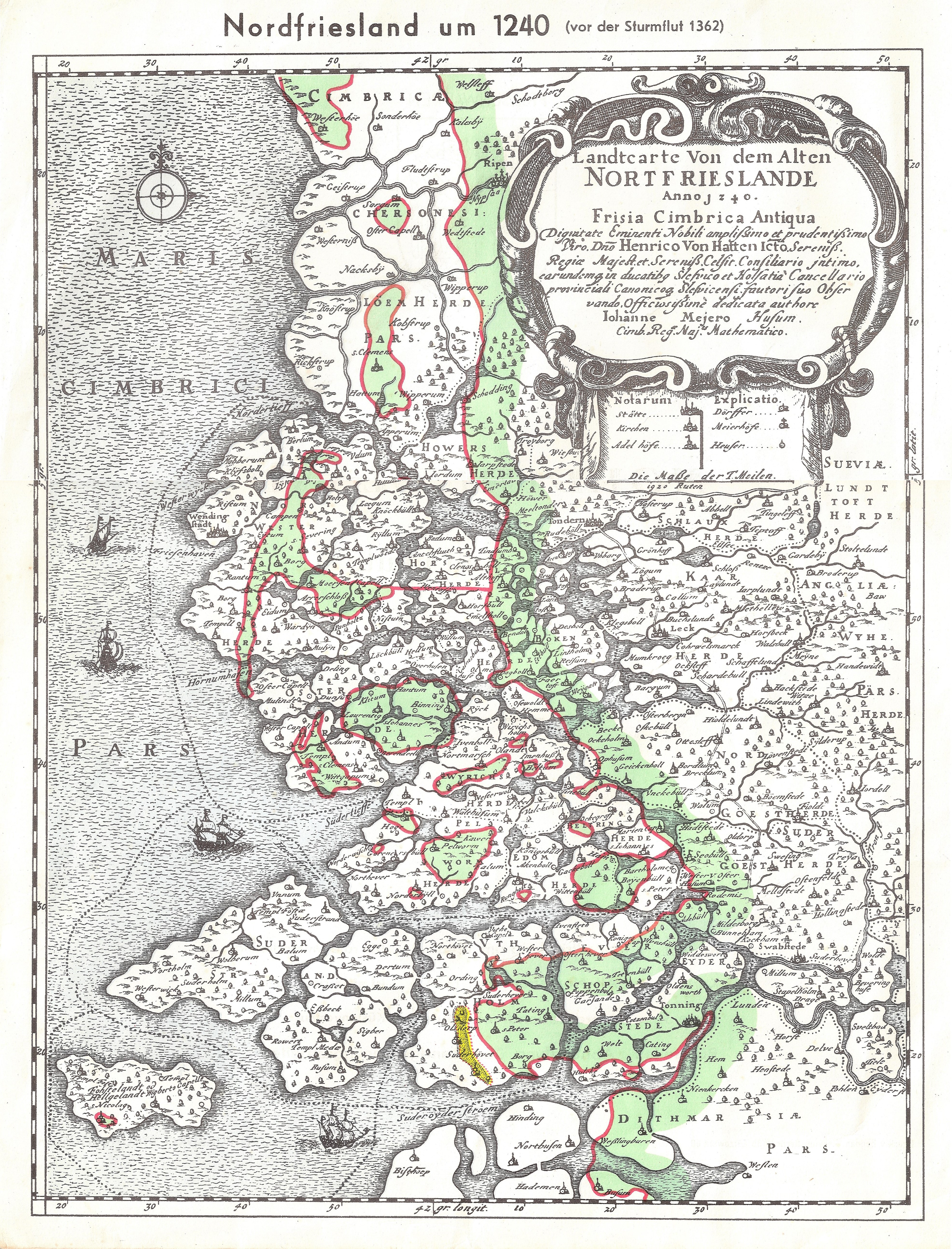 Nordfriesland map of Johannes Mejer around 1240 (before the storm surge 1362). The red lines indicate the coastline at the time of the report template.